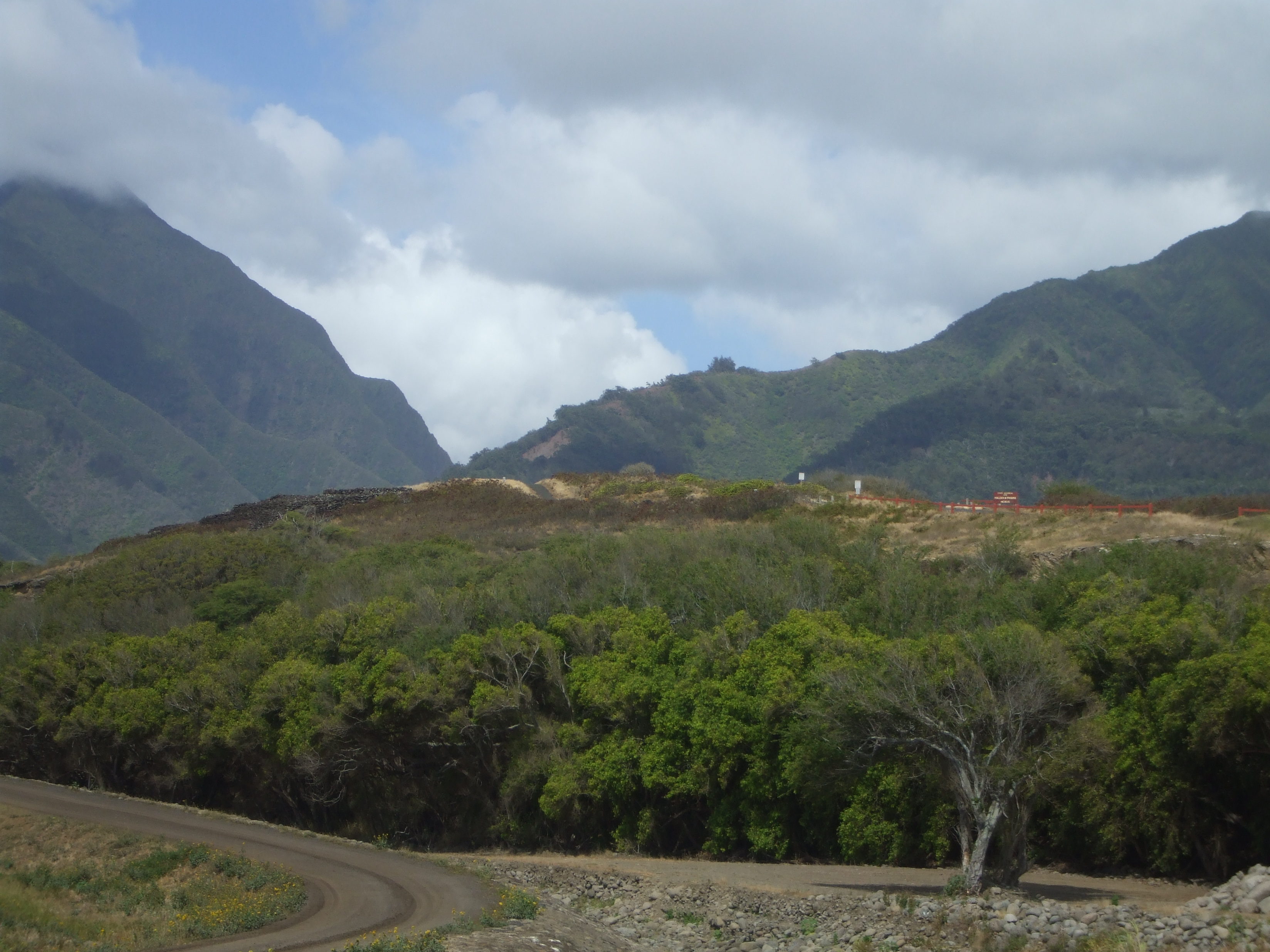 Haleki'i-Pihana Heiau State Monument looking from the bridge across the Iao Stream in Pakukalo/Waiehu.